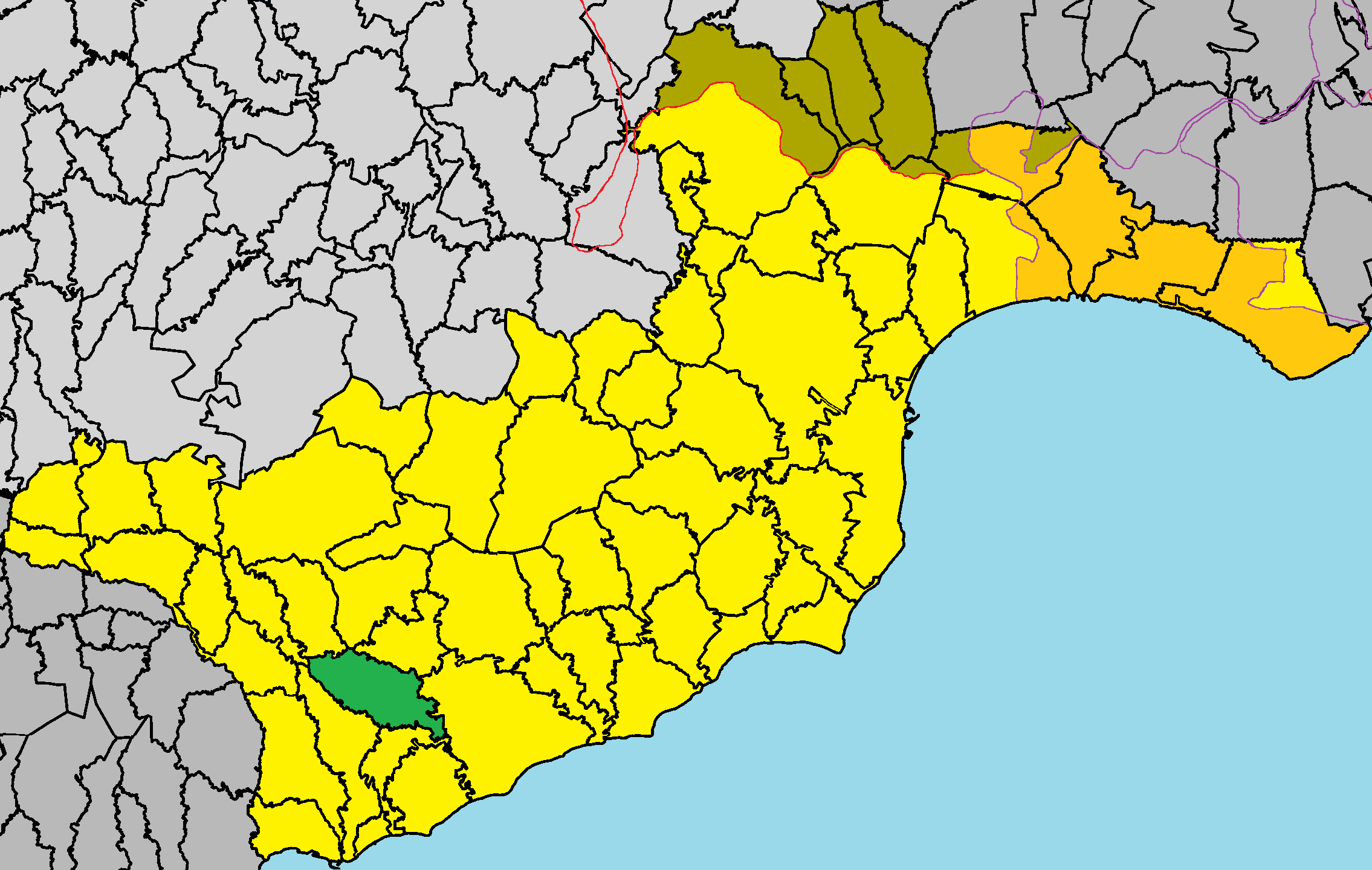 Choirokoitia in Larnaca District.